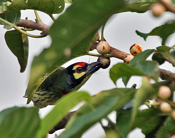 Pilkhan Ficus virens. Kolkata, West Bengal, India